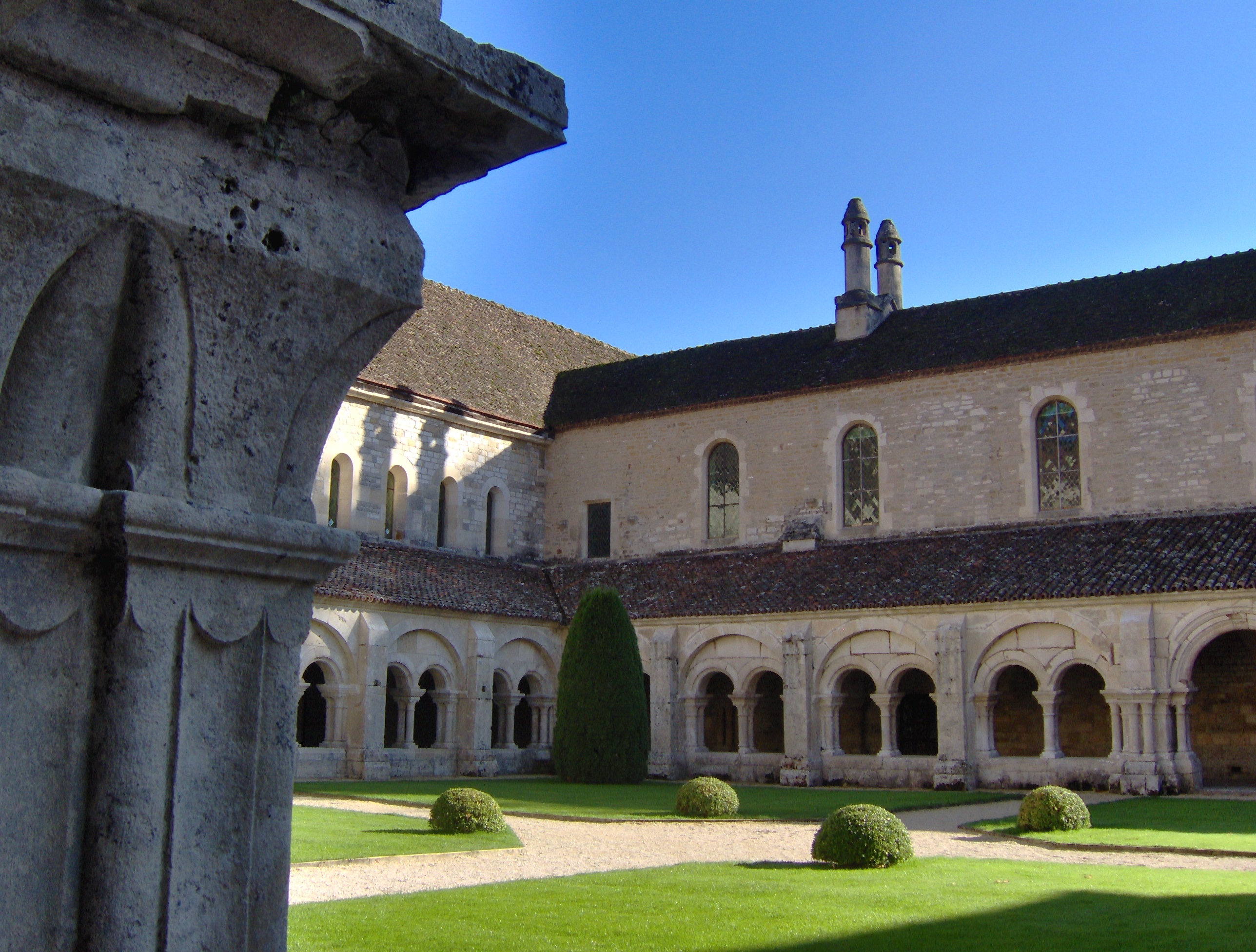 Cloister of Fontenay Abbey, medieval Cistercian monastery. Location: Marmagne, Burgundy, France